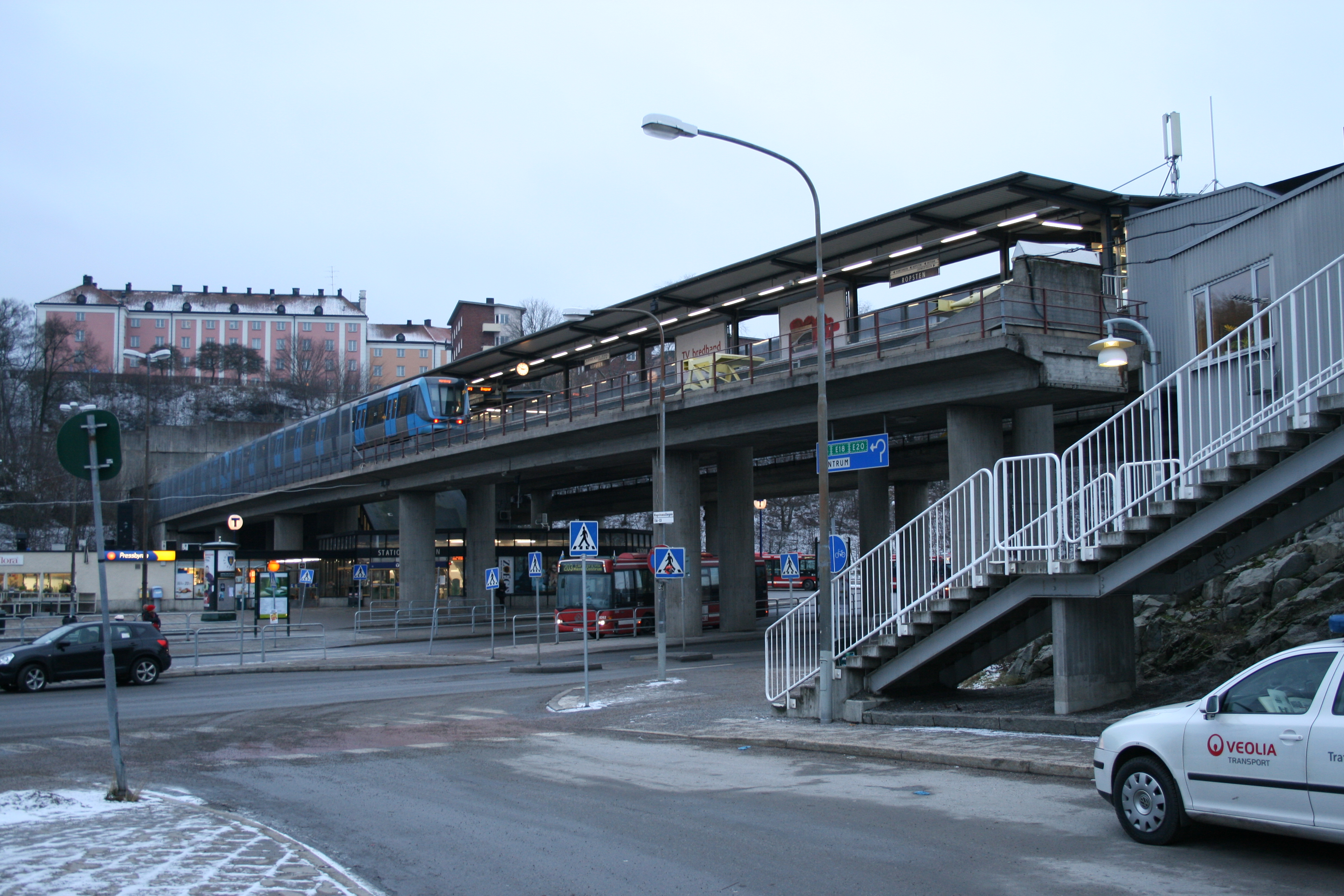 Ropsten, Stockholm Metro station